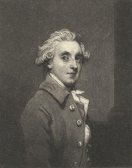 Extracted from Lord John Cavendish; Frederick Ponsonby, 3rd Earl of Bessborough; John Stuart, 1st Marquess of Bute; George Howard, 6th Earl of Carlisle; Ludovico, Count Belgioso; William Davidson.